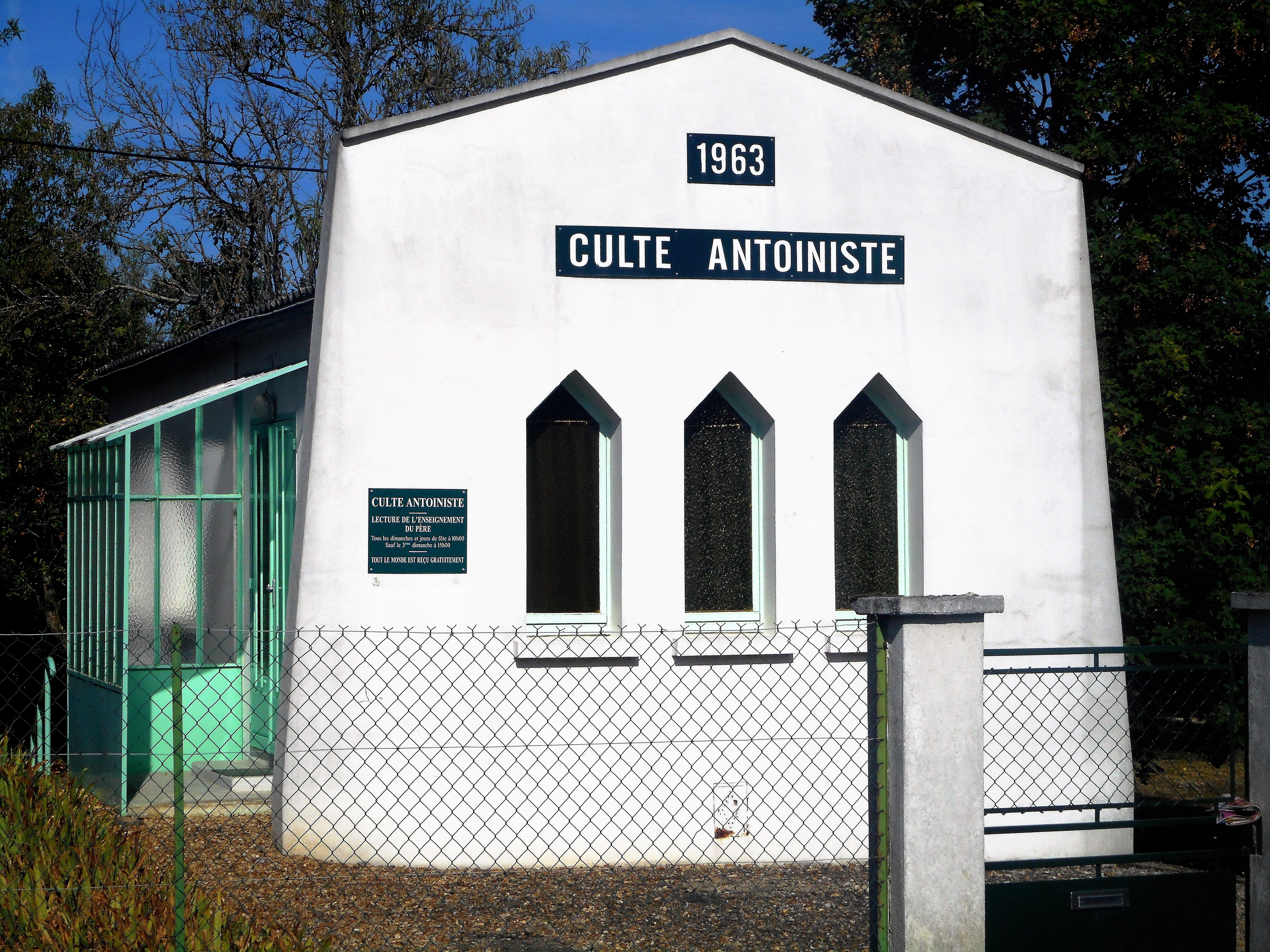 Antoinist Reading room in Buxerolles (Vienne), France